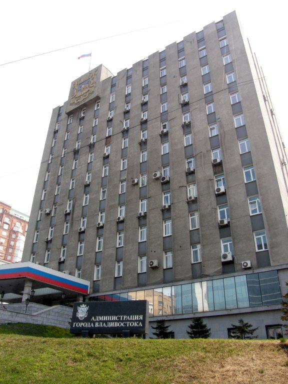 Townhall in Vladivostok